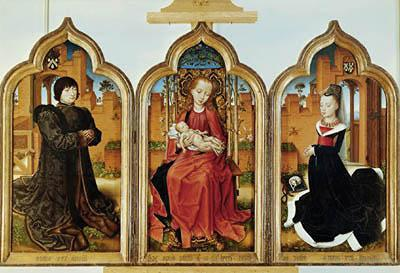 Triptych of Jan de Witte and Marie Hoose